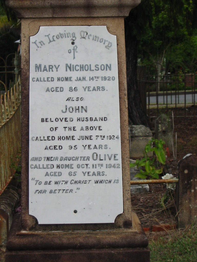 Headstone for John and Mary Nicholson, St Matthews Anglican Church, Grovely (now Mitchelton), Brisbane, Queensland, Australia